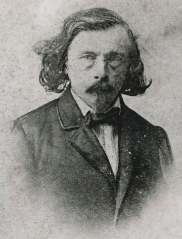 Self-portrait of George Dury, ca 1860. Tennessee State Library and Archives